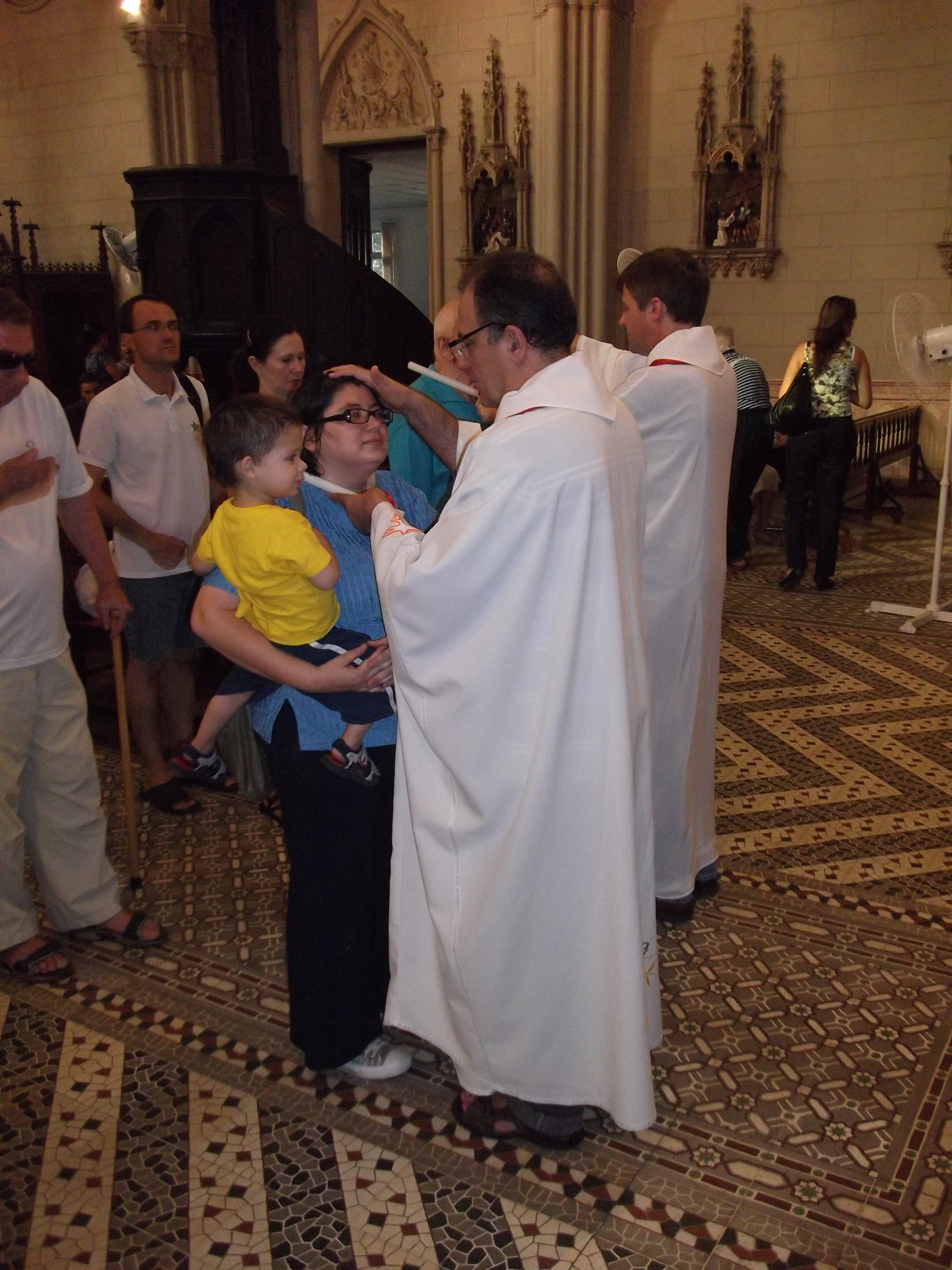 Blessing of Throats (or Blessing of Saint Blaise), Church of the Most Holy Sacrament and Saint Thérèse of Lisieux, José Bonifácio Avenue, Porto Alegre, Reio Grande do Sul, Brazil.